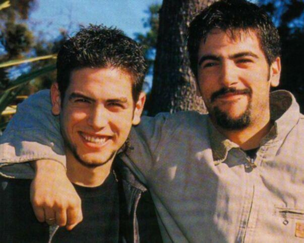 Estopa duo, David y José Manuel Muñoz.